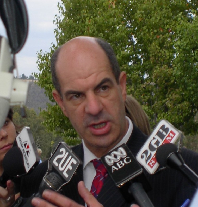 Photograph of Kelvin Thomson, Australian Labor MP.